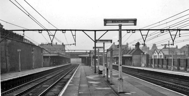 Brentwood & Warley Station. View westward, towards London; ex-GER Liverpool St. - Colchester etc. main line, electrified since 6/56. ('& Warley' was dropped in 1969).